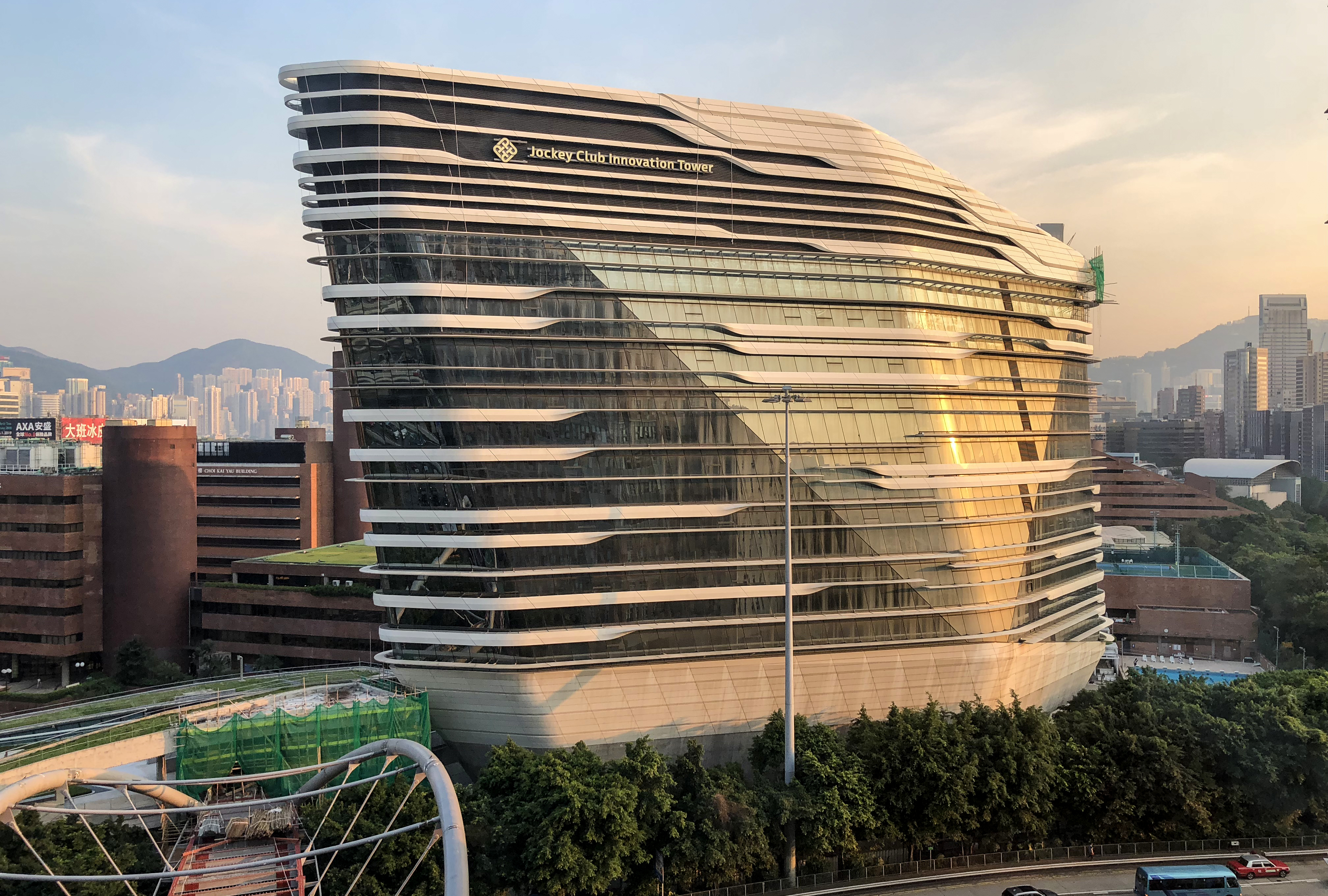 Taken from 10F of Block Z.